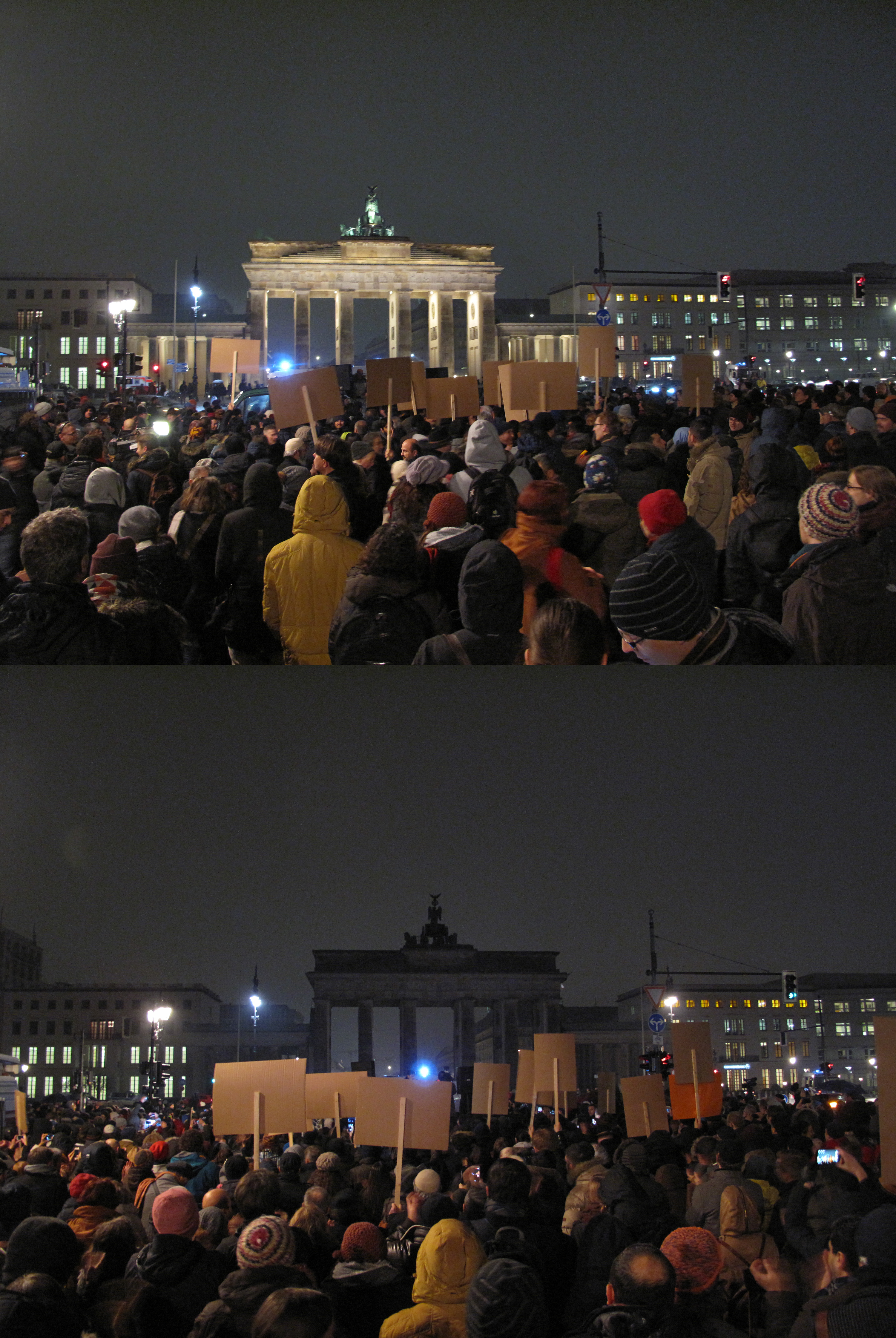 To protest a PEGIDA demonstration on 1-5-2015, Berlin switched off the Brandenburg Gate floodlights, following the example of the Cologne Cathedral.